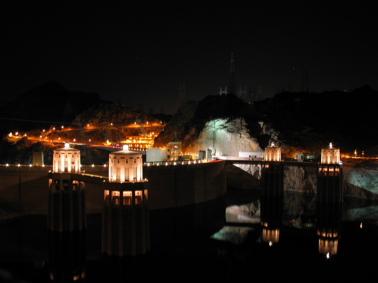 Back side (up river side) of Hoover Dam